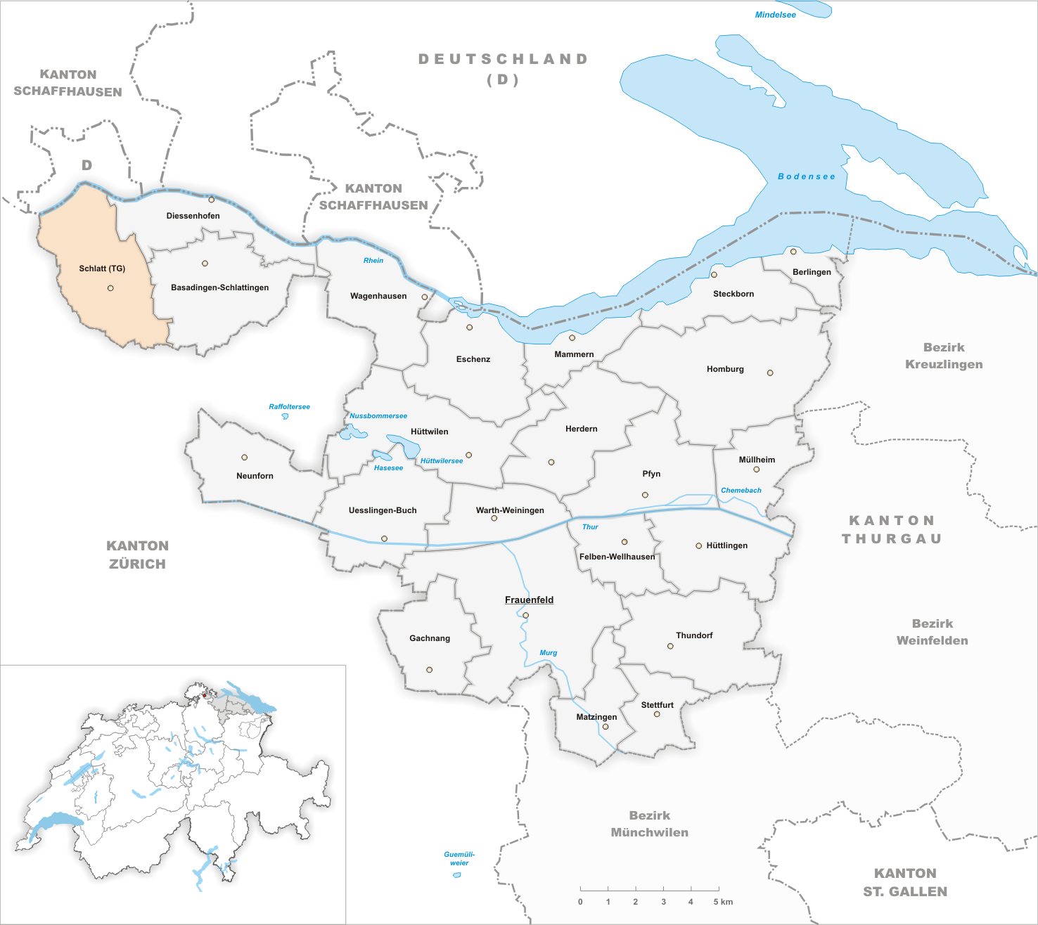 Municipality Schlatt